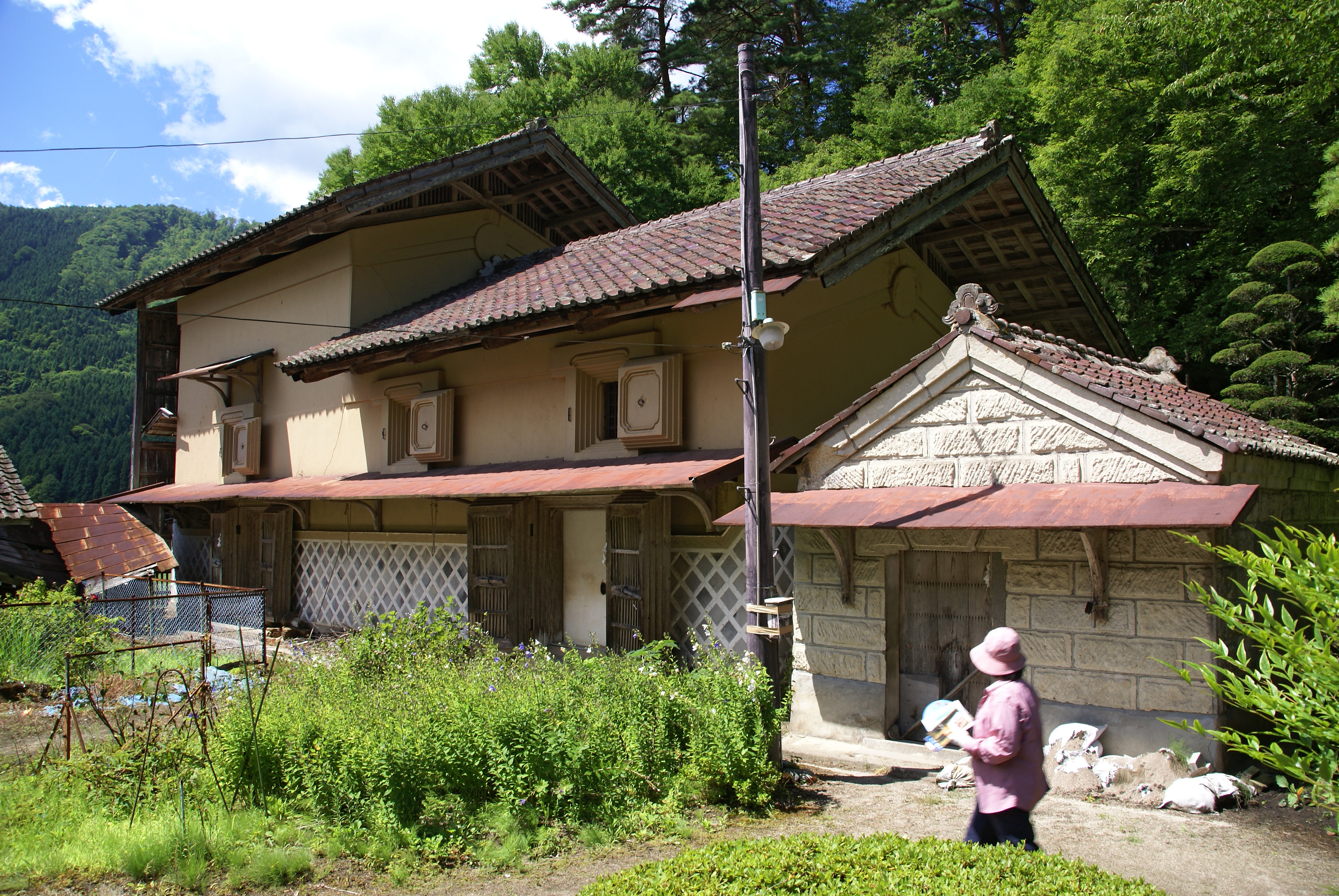 Chiba curvature house in Tono, Iwate prefecture, Japan